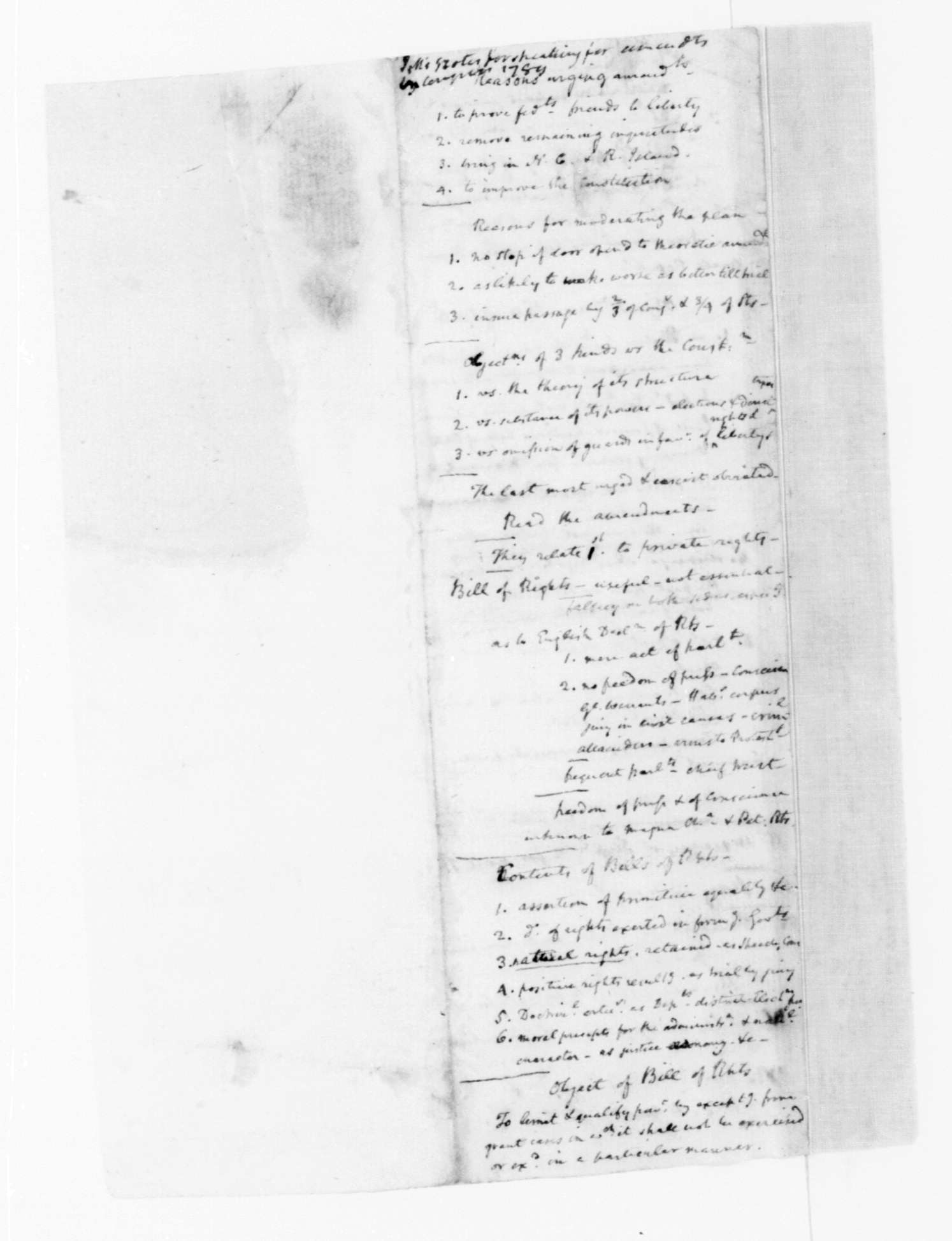 James Madison's "Notes for Speech on Constitutional Amendments. June 8, 1789." The James Madison Papers at the Library of Congress Repository, Library of Congress, Manuscript Division, Washington, D.C. 20540